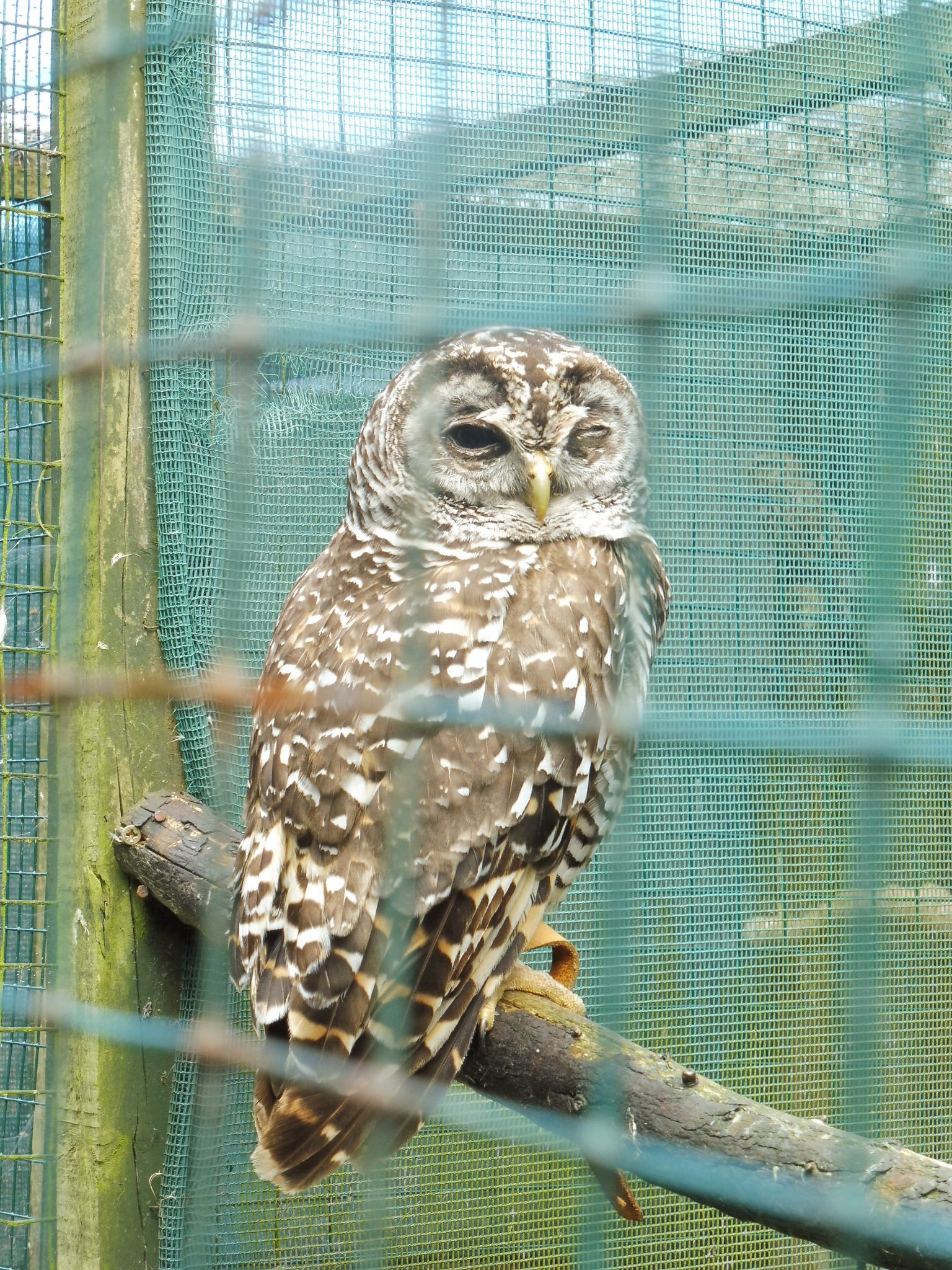 A Chaco Owl, Bodafon Farm Park, Llandudno (Wales)